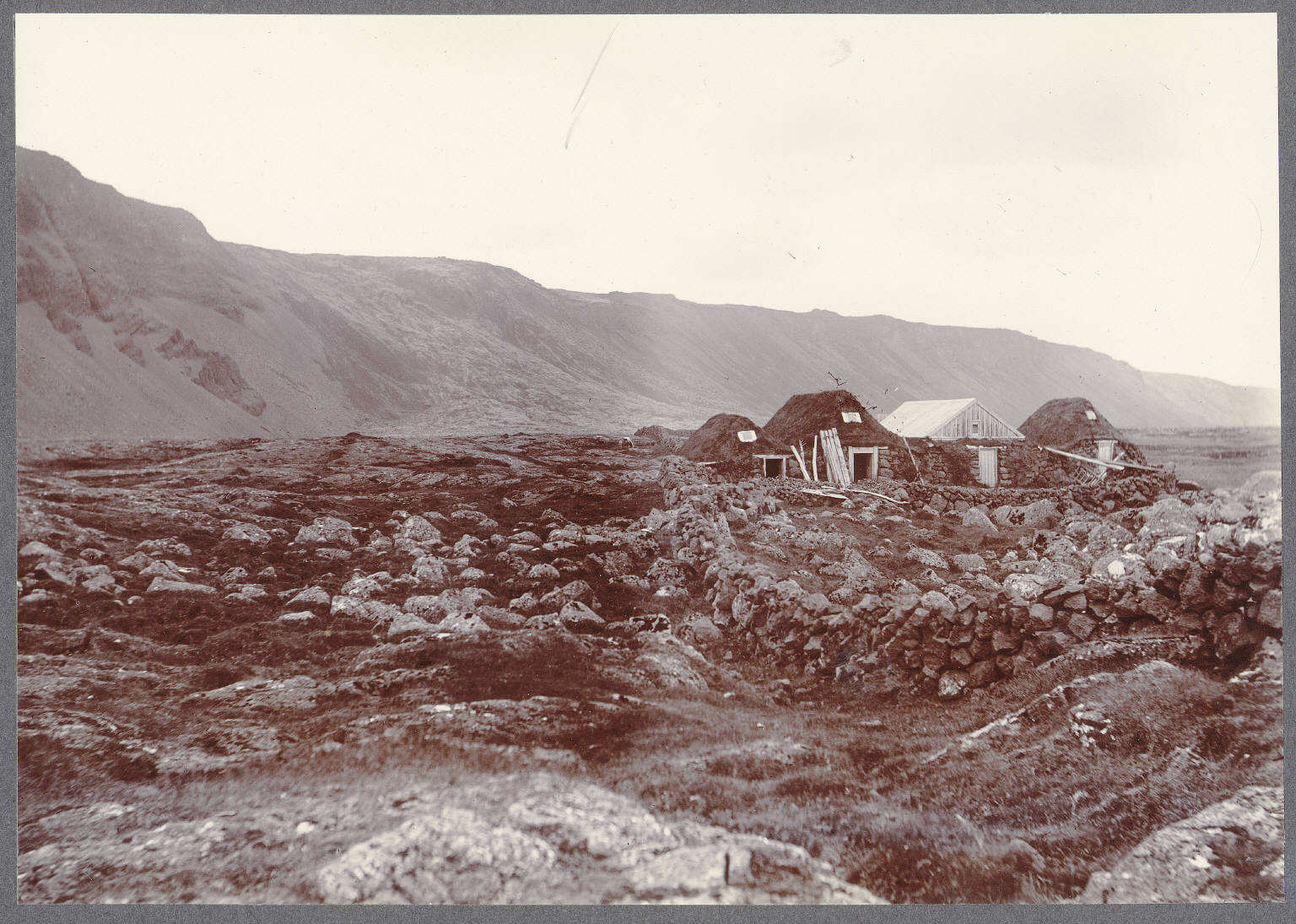 Collection: Icelandic and Faroese Photographs of Frederick W.W. Howell, Cornell University Library Title: Lava fall, Herdísarvík, near Krísuvík. Date: ca. 1900 Place: Herdísarvík (Iceland) Medium: collodion print Repository: Fiske Icelandic Collection, Rare & Manuscript Collections, Cornell University Library Accession: 1923.3.08 URL: Persistent URI: There are no known U.S. copyright restrictions on this image. The digital file is owned by the Cornell Univeristy Library which is making it freely available with the request that, when possible, the Library be credited as its source. We had some help with the geocoding from Web Services by Yahoo!